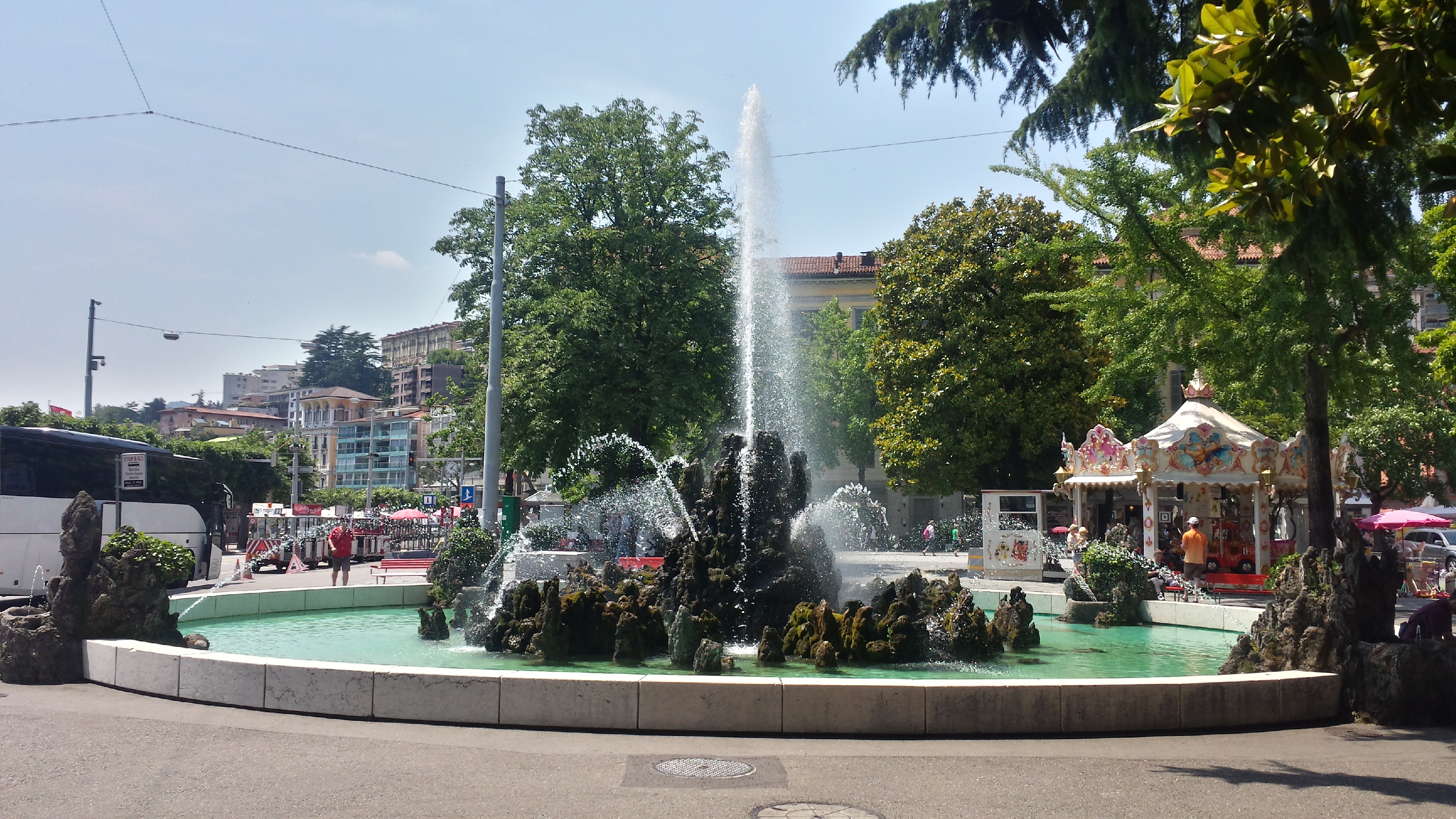 The fountain on Piazza Manzoni in the centre of Lugano, Switzerland